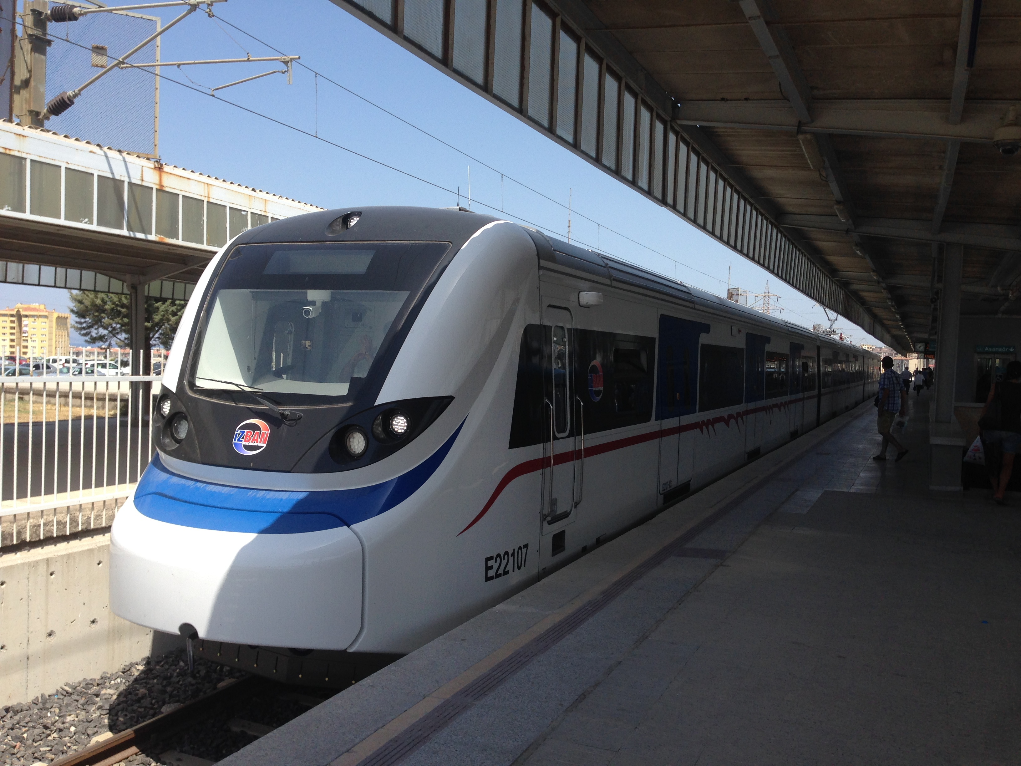 IZBAN E22107 at Aliaga station.